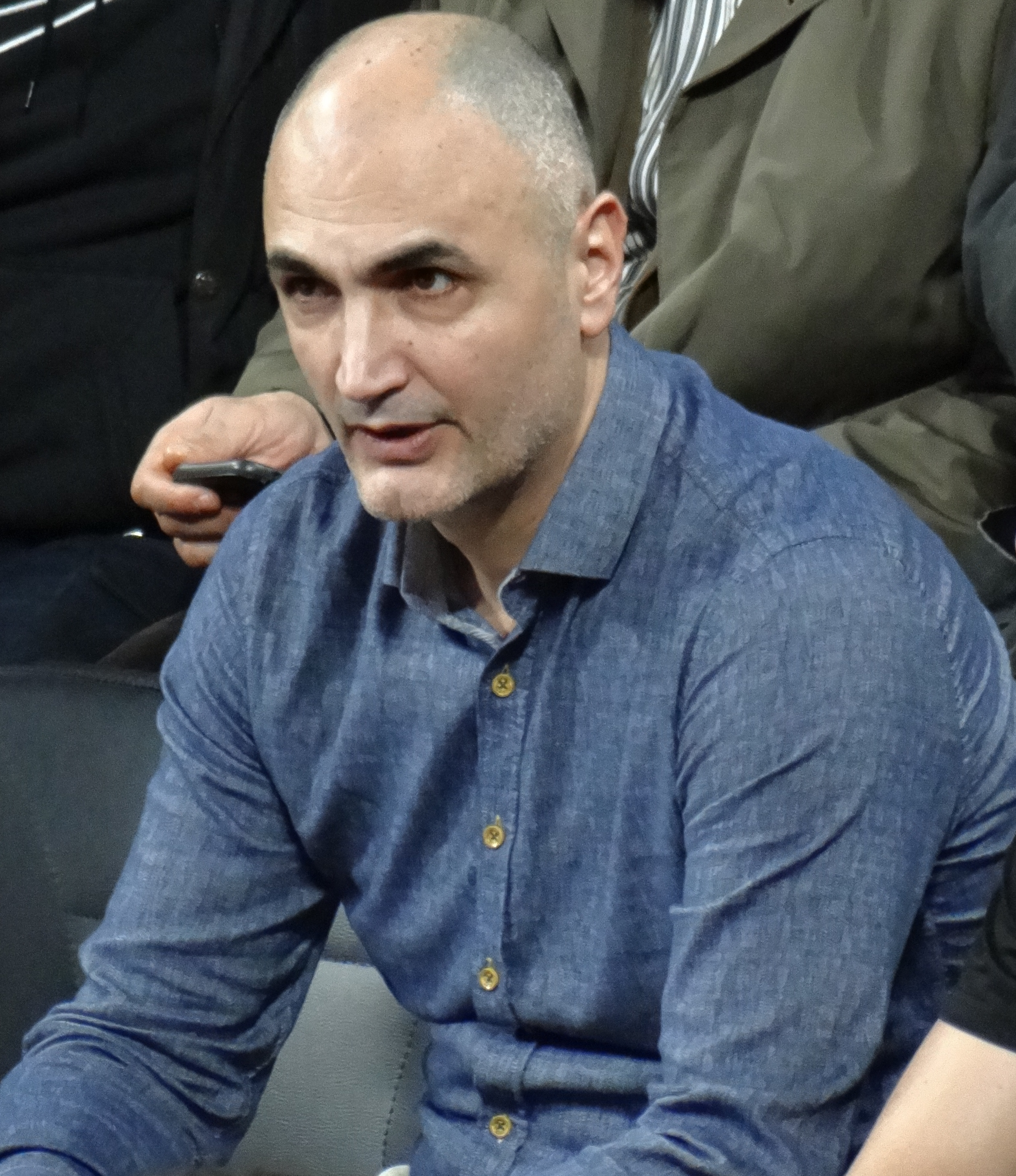 Petar Naumoski Anadolu Efes S.K. vs Fenerbahçe Men's Basketball EuroLeague 20180119